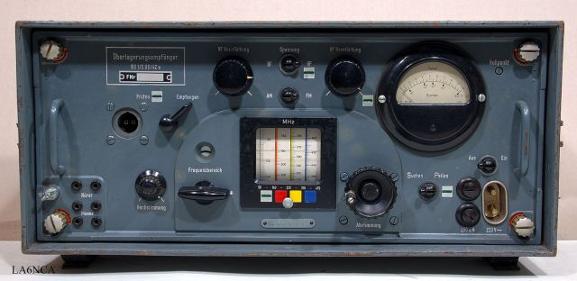 German RF receiver (Samos) from WWII